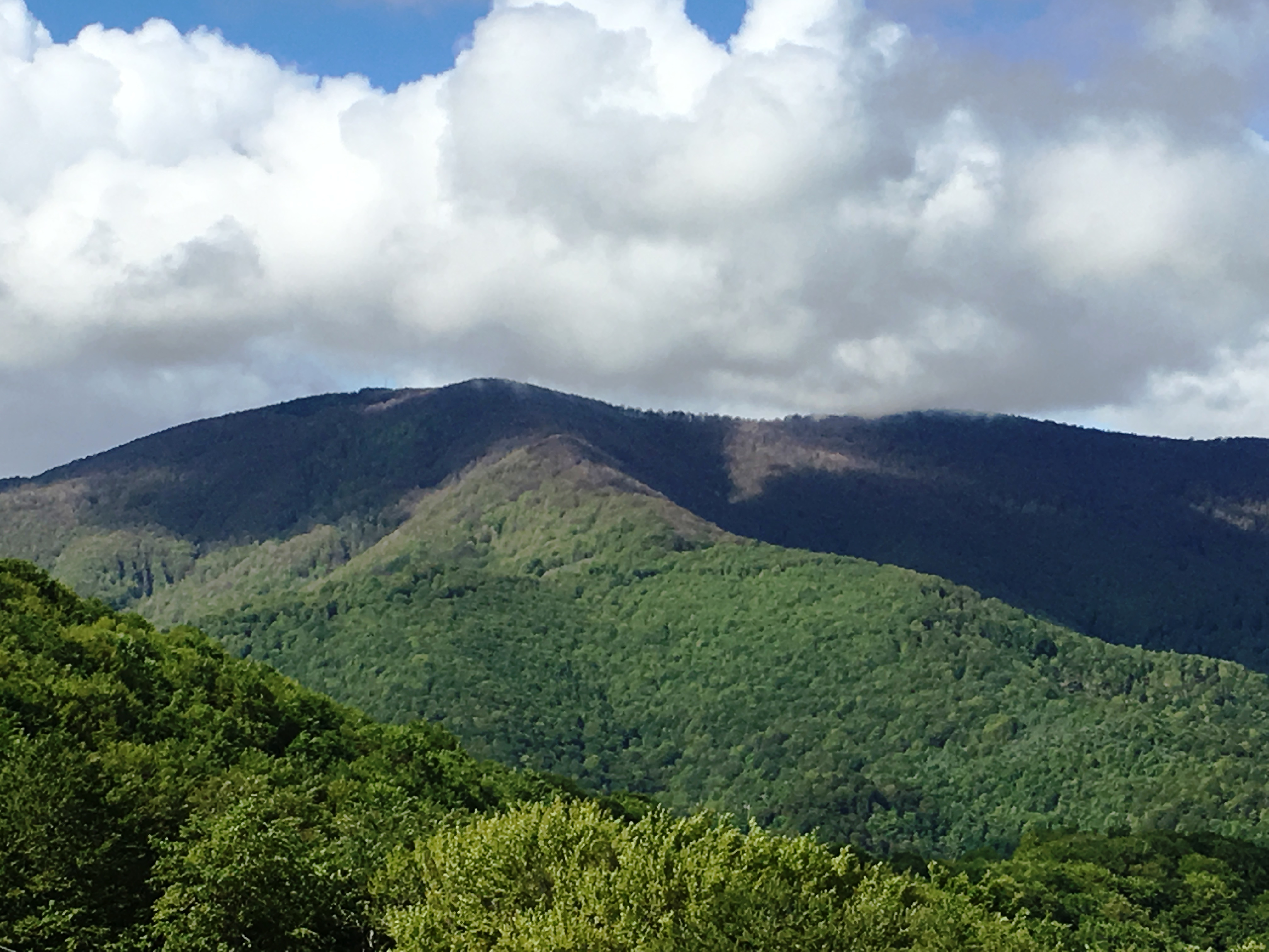 Peak Turtel (1,689 m) on Plačkovica, Macedonia.